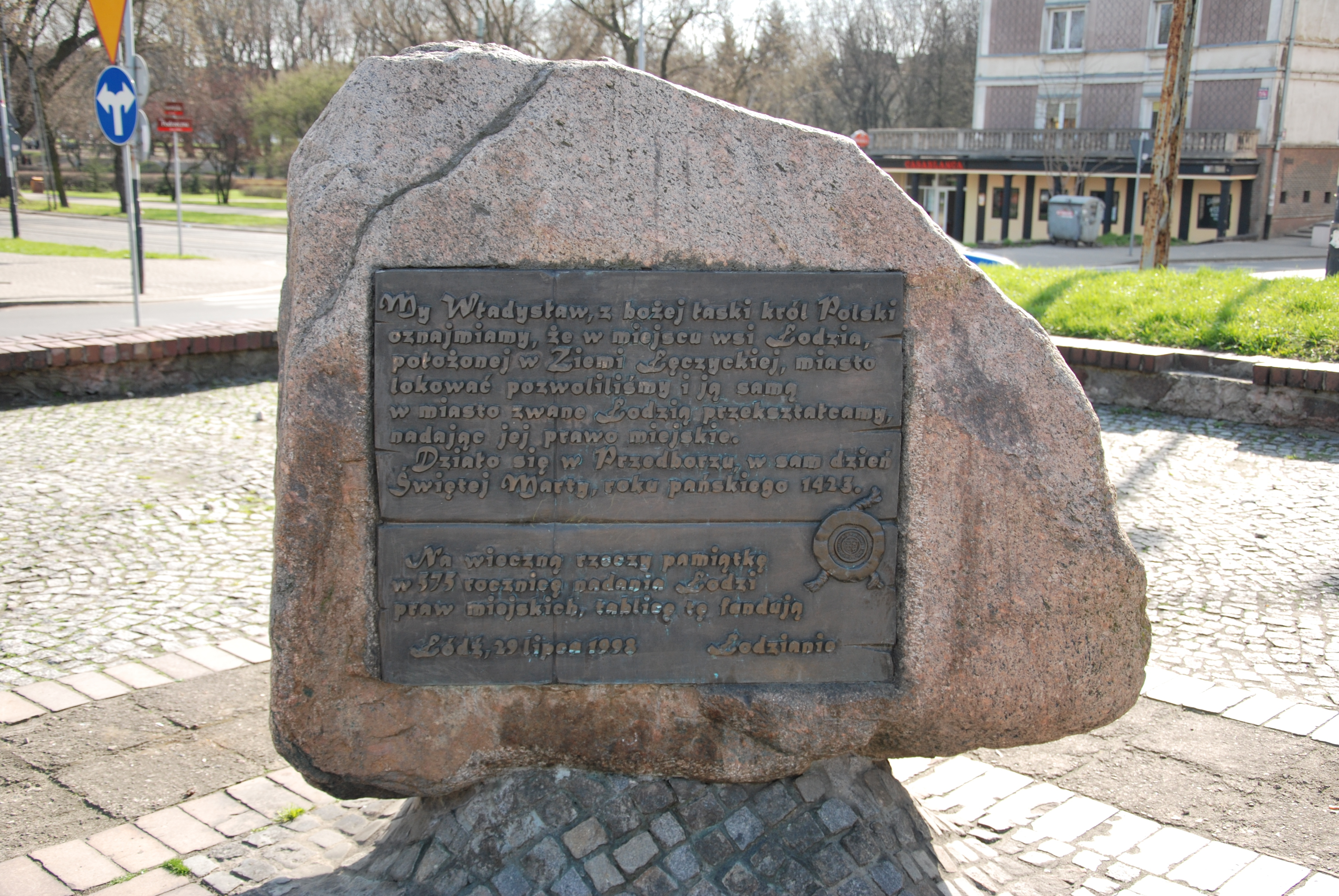 Memorial stone, 575th anniversary of Łódź, Old Market